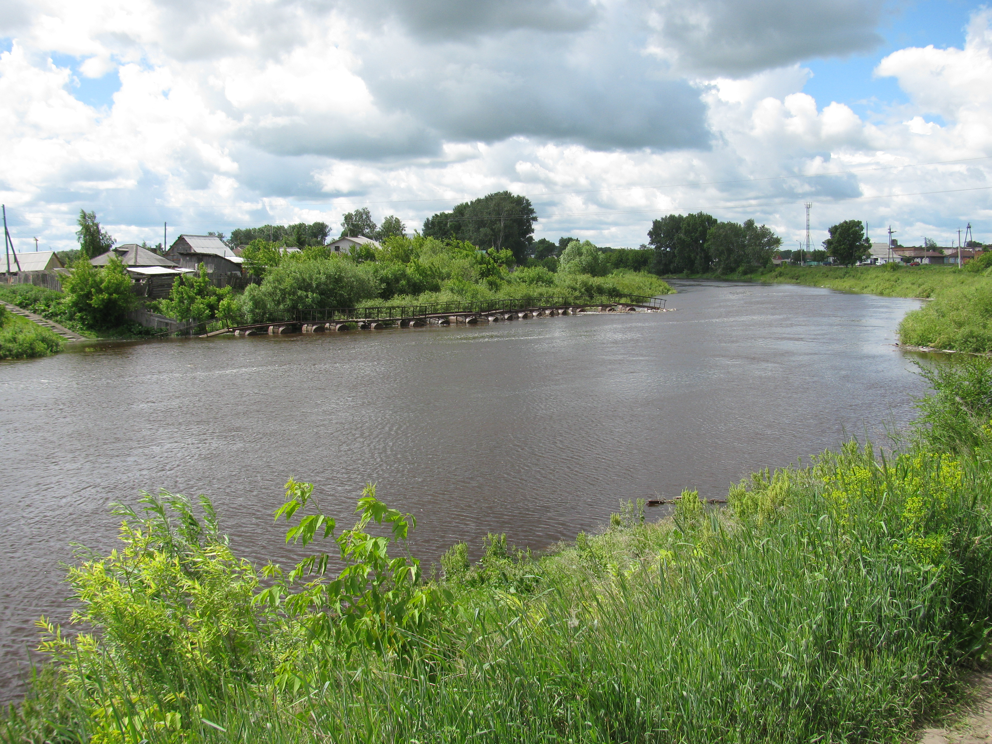 River Om